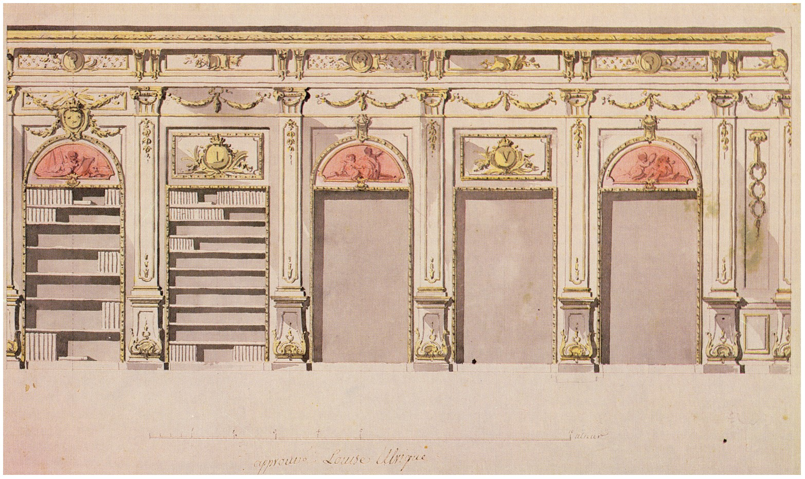 Drottningholm library, interior elevation 1767